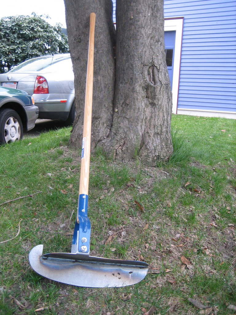 "This edger exudes grim power. Suitable for use against lightly armored foes." Modified slightly to blur out license plate.